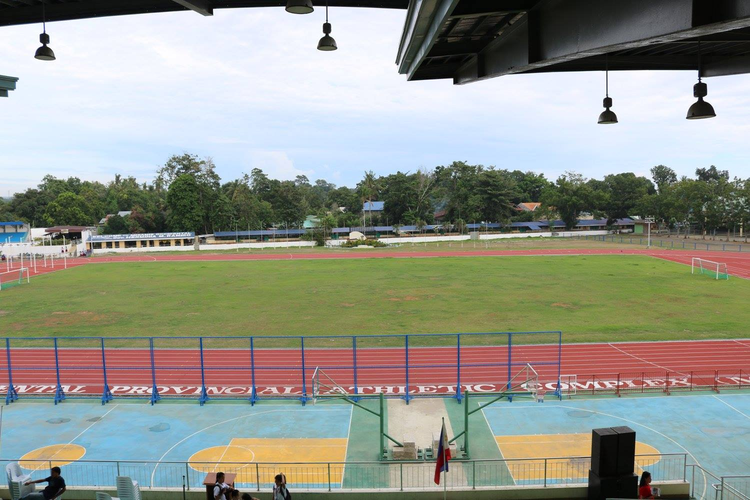 Their Provincial Sports Complex during the Oroquieta City Athletic Association Meet last October 2016. Owned by DepEd Oroquieta City and serve as a public domain under the country's Government's name.